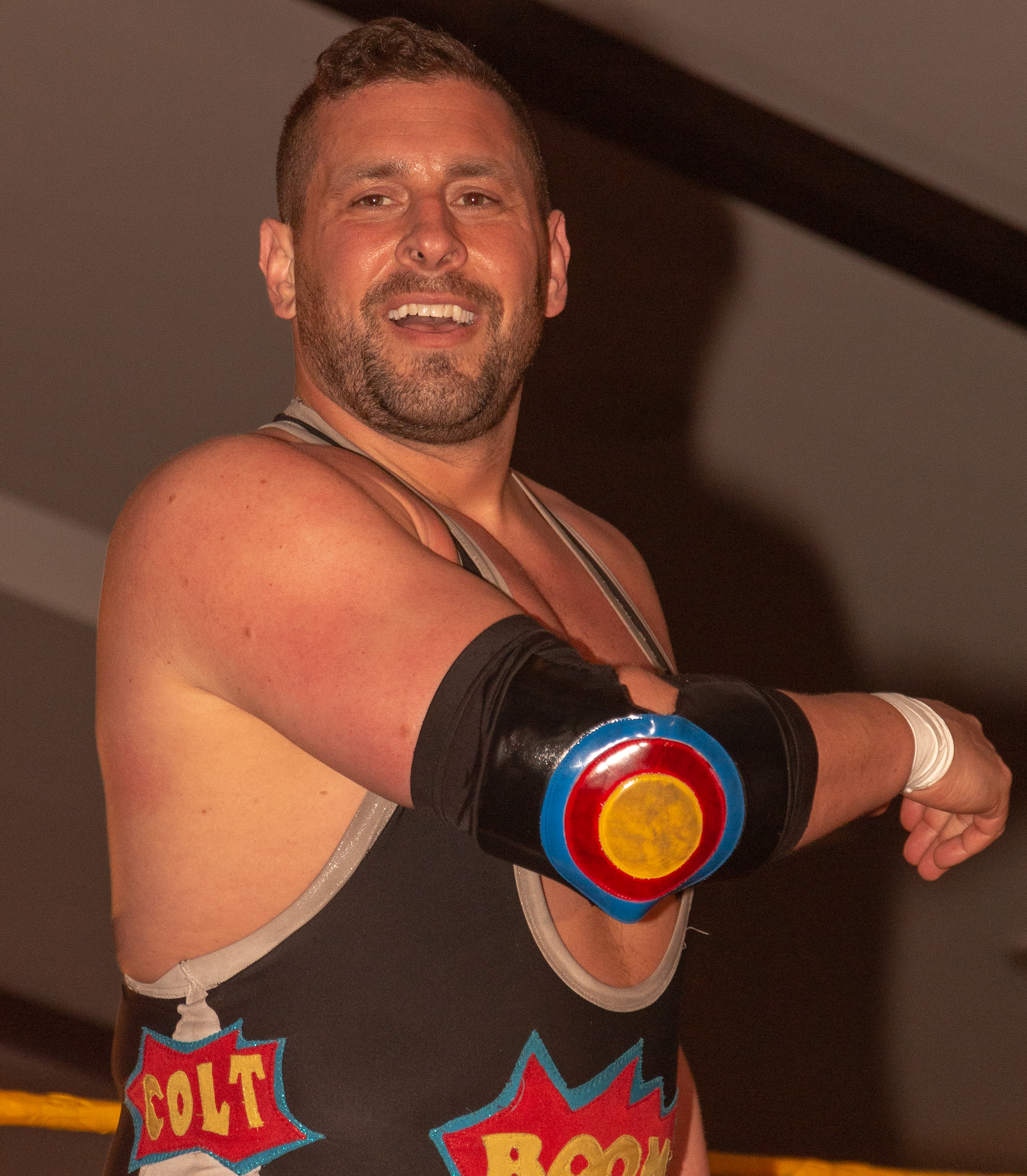 Colt Cabana at an SKM Promotions independent pro wrestling show at Oshweken, ON